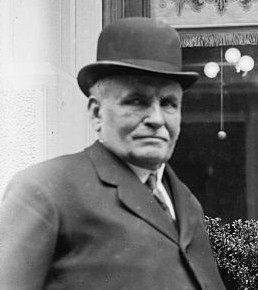 Benjamin Franklin Shibe, owner of Piladelphia Athletics, 1910